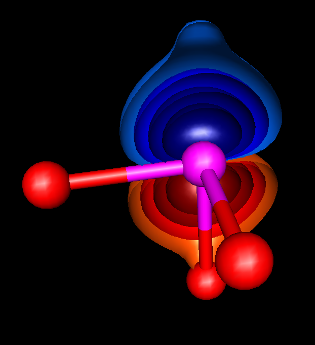 Maximally Localized Wannier Function for 3p-like band of Titanium in Barium Titanate (BaTiO3). Different planes correspond to different iso-values, the function is real-valued.The pink atom is Titanium, the red ones are Oxygens; the Barium atom is out of the frame in the position correponding to the vertex opposite to the Titanium's one of the cube formed by the Ti-O bonds.